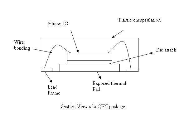 This figure provides side-view of an QFN package used in SMT process